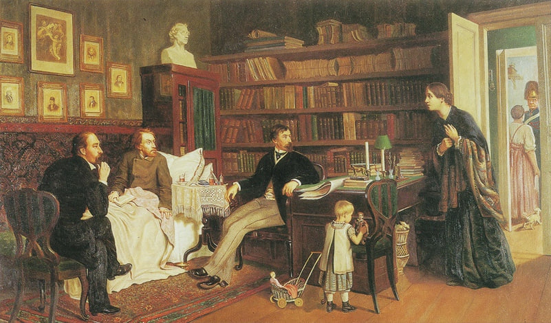 Nekrasov and Panaev visiting sick Belinsky. 1881 Artist Naumov Alexey Avvakumovich (1840-1895)